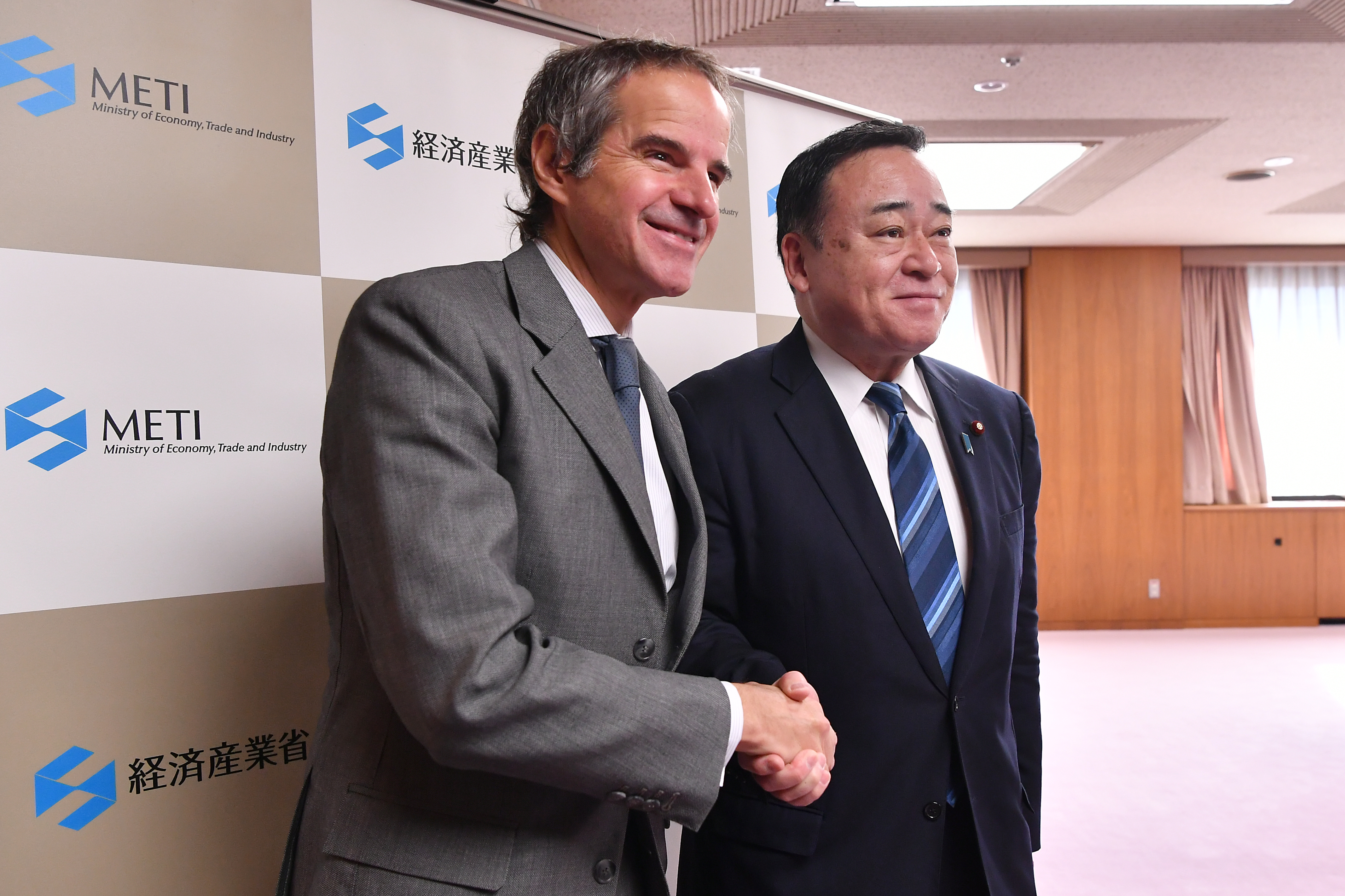 IAEA Director General Rafael Mariano Grossi met with Hiroshi Kajiyama, Minister of Economy, Trade and Industry (METI) during his official visit to Tokyo, Japan. 25 February 2020. The DG is accompanied by Edgard Perez Alvan, Assistant to the DG and IAEA Deputy Coordinator, Fredrik Dahl, IAEA Section Head (Media, Multimedia and Public Outreach) Office of Public Information and Communication and HE Mr. Takeshi Hikihara, Resident Representative of Japan to the IAEA. Photo Credit: Dean Calma / IAEA